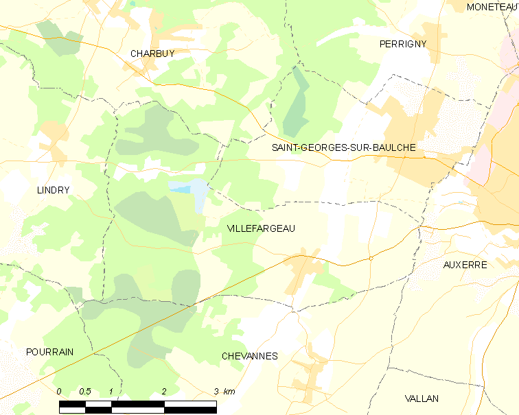 Map of French municipality Villefargeau